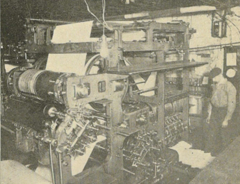 "The big press", one of a group of three photos from brochure Seattle and the Orient (1900) collectively captioned "Where the Daily Times is made." This is part of a long section on The Seattle Daily Times, publisher of the brochure/booklet. The newspaper is now known simply as the Seattle Times.